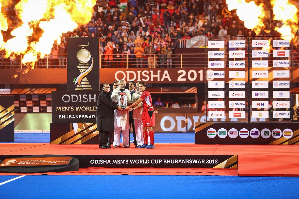 Tweet Text: Enjoyed an incredible final match of #HWC2018, between #BELvNED at #KalingaStadium with Hon’ble Governor, Odisha Prof Ganeshi Lal and little master @sachin_rt. Amazed to witness such enthusiasm for hockey from locals and visiting fans alike! #OdishaCelebratesHockey